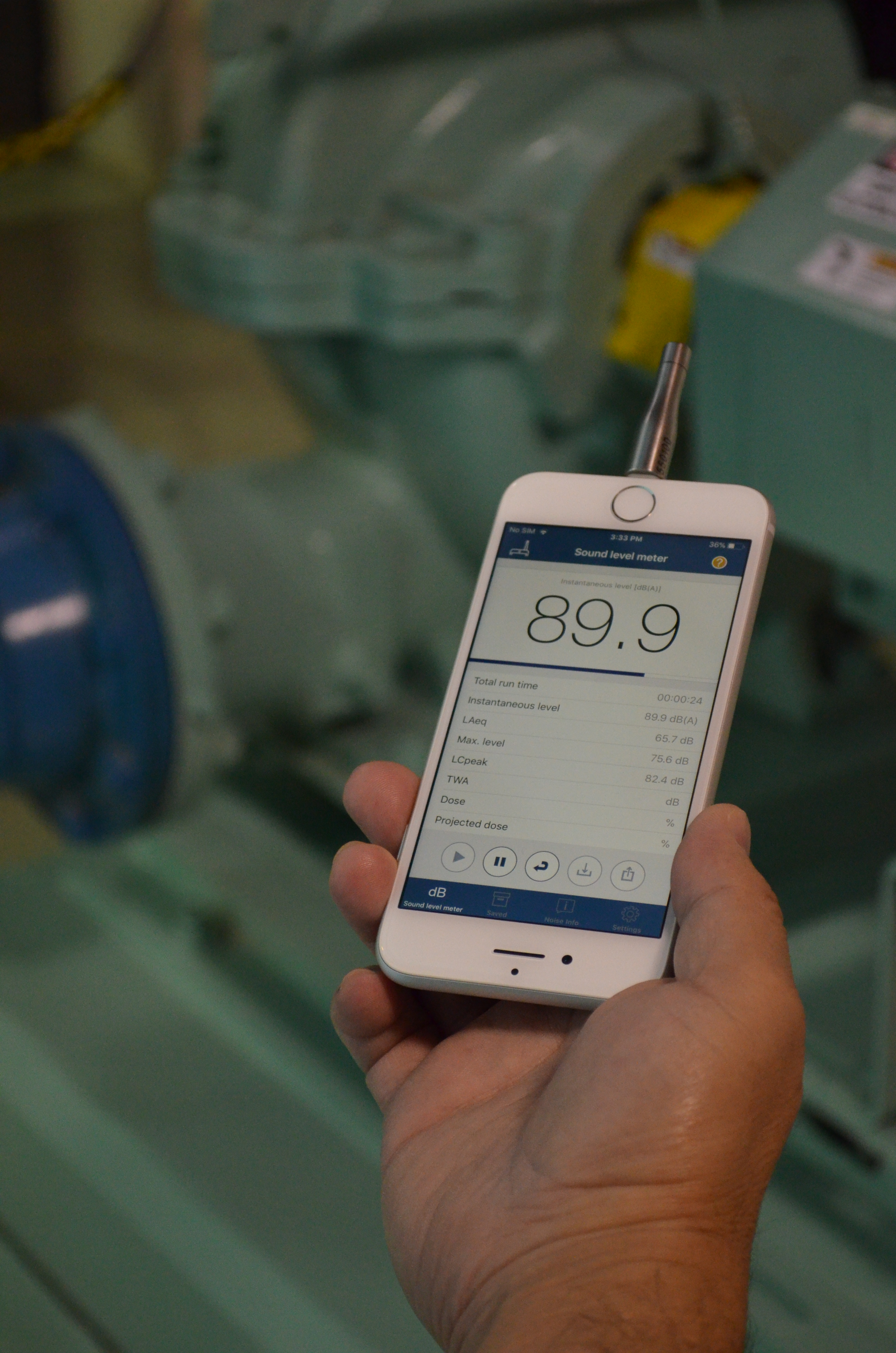 NIOSH Sound Level Meter app using iPhone 7 and external microphone